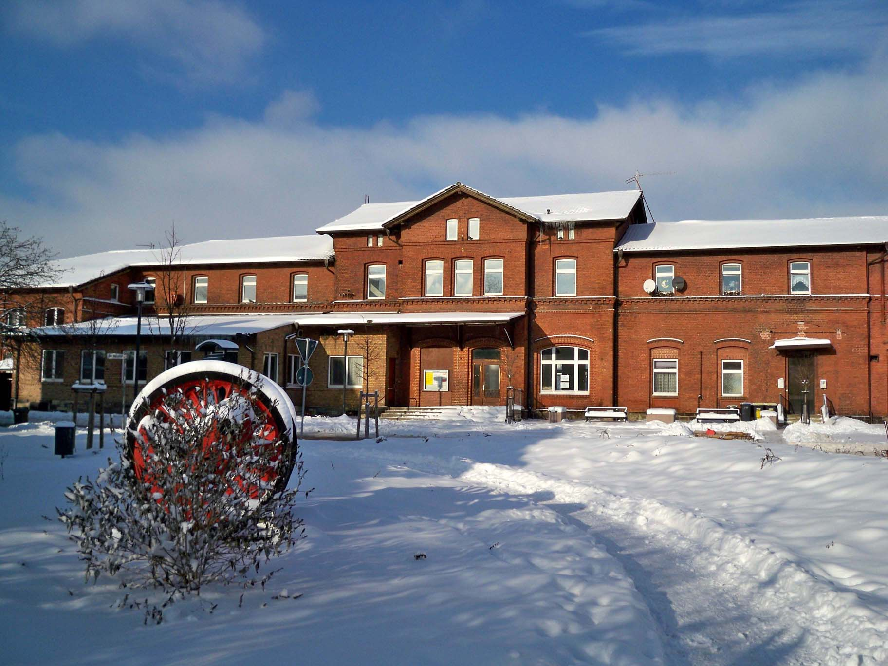 Main Building of Oebisfelde Station, Saxony-Anhalt, Germany